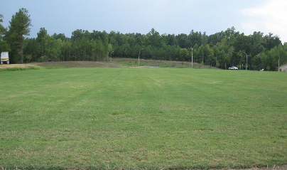 Northeast Park Soccer, Ultimate, Football, etc. field